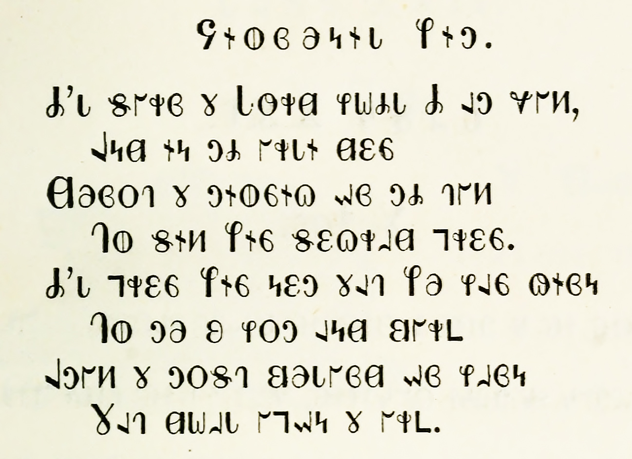 Deseret Second Book Juvenile Hymn page 23 Section of Page 23 of the Deseret Second Book, showing the "Juvenile Hymn" therein. This image was made intentionally so that it would have the same ratio as File:Deseret second book.jpg, an inferior low resolution image that has cut off text. - 𐐔𐐯𐑅𐐨𐑉𐐯𐐻 𐐝𐐯𐐿𐐲𐑌𐐼 𐐒𐐳𐐿 𐐖𐐮𐐭𐑂𐐨𐑌𐐮𐑊 𐐐𐐮𐑋 𐐹𐐩𐐾 23 𐐝𐐯𐐿𐑇𐐲𐑌 𐐲𐑂 𐐑𐐩𐐾 23 𐐲𐑂 𐑄 𐐔𐐯𐑅𐐨𐑉𐐯𐐻 𐐝𐐯𐐿𐐲𐑌𐐼 𐐒𐐳𐐿, 𐑇𐐬𐐮𐑍 𐑄 "𐐖𐐮𐐭𐑂𐐨𐑌𐐮𐑊 𐐐𐐮𐑋" 𐑄𐐯𐑉𐐮𐑌. 𐐜𐐮𐑅 𐐮𐑋𐐮𐐾 𐐶𐐲𐑆 𐑋𐐩𐐼 𐐮𐑌𐐻𐐯𐑌𐑇𐐲𐑌𐐲𐑊𐑊𐐨 𐑅𐐬 𐑄𐐰𐐻 𐐮𐐻 𐐶𐐳𐐼 𐐸𐐰𐑂 𐑄 𐑅𐐩𐑋 𐑉𐐩𐑇𐐬 𐐰𐑆 File:Deseret second book.jpg, 𐐪𐑌 𐐮𐑌𐑁𐐨𐑉𐐨𐐲𐑉 𐑊𐐬 𐑉𐐯𐑆𐐲𐑊𐐭𐑇𐐲𐑌 𐐮𐑋𐐮𐐾 𐑄𐐰𐐻 𐐸𐐰𐑆 𐐿𐐲𐐻 𐐫𐑁 𐐻𐐯𐐿𐑅𐐻.